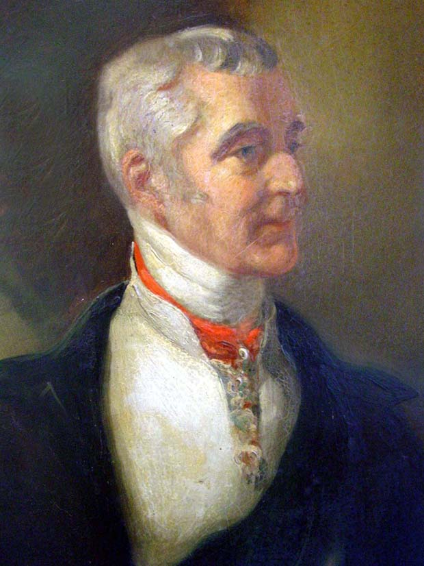 Portrait of the Duke of Wellington (1769-1852)